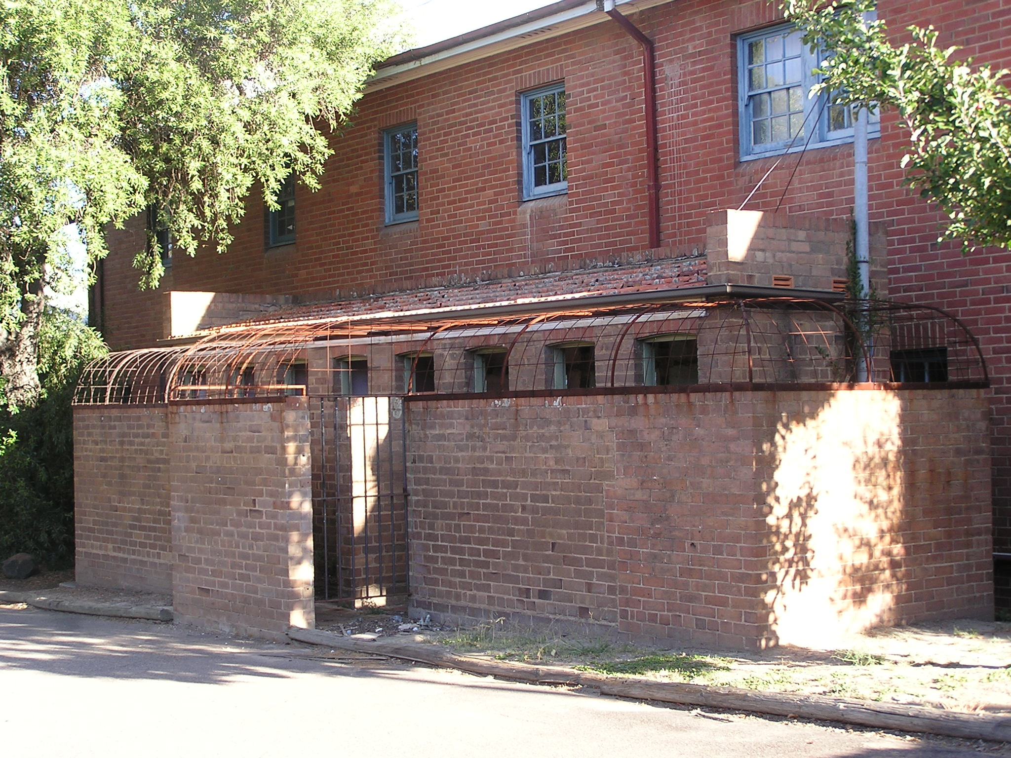 An education strike in 1962 by parents of St Brigid's school in Goulburn, New South Wales|Australia resulted in government reform to state aid for non-Government schools. The strike was over demands to increase the number of toilets and local Catholic parents declaring they did not have any funds available. Photo taken by AYArktos